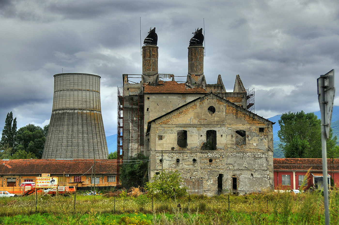 Contiguous area of old sugar factory building in industrial area, Avezzano, Abruzzo, Italy